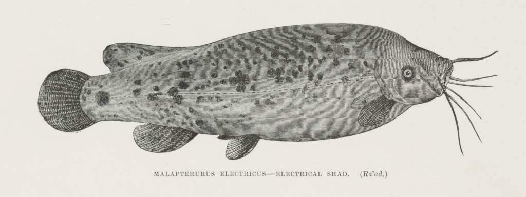 An electrical shad, one of the fish of the Nile.